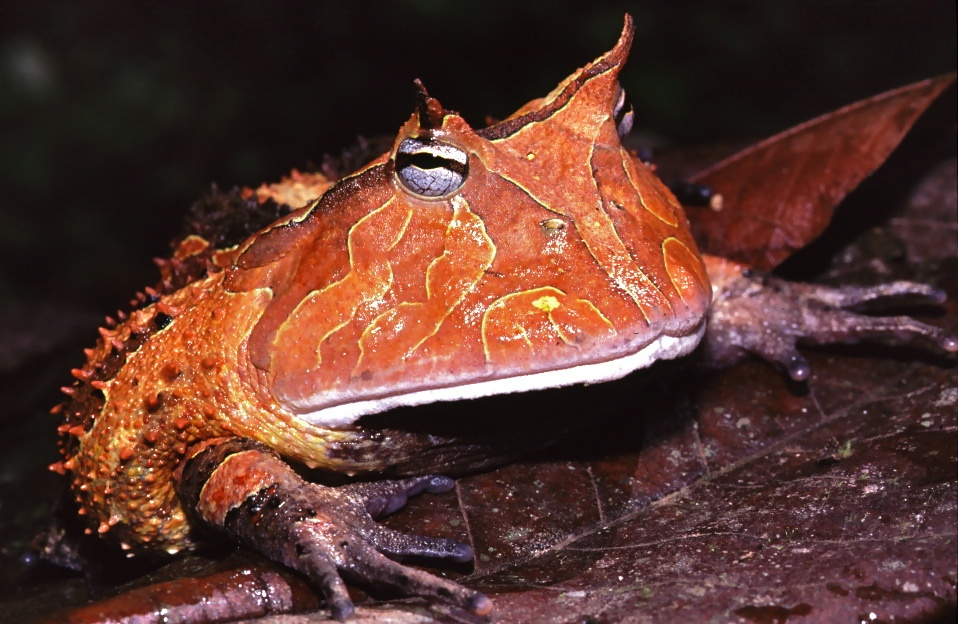 Cacao, Guyane, FRANCE Scanned slide from 2001